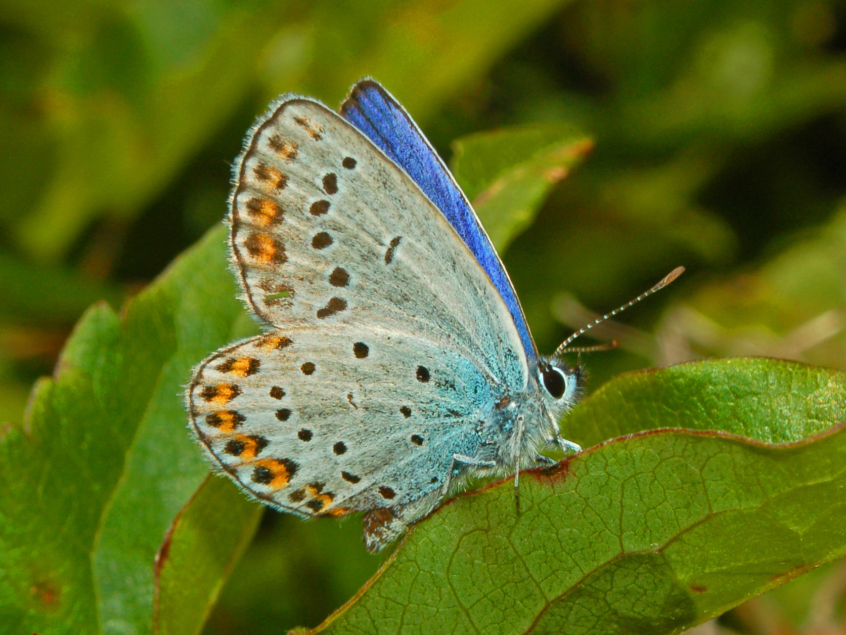 Male of Plebejus argyrognomon. Genova, Italy